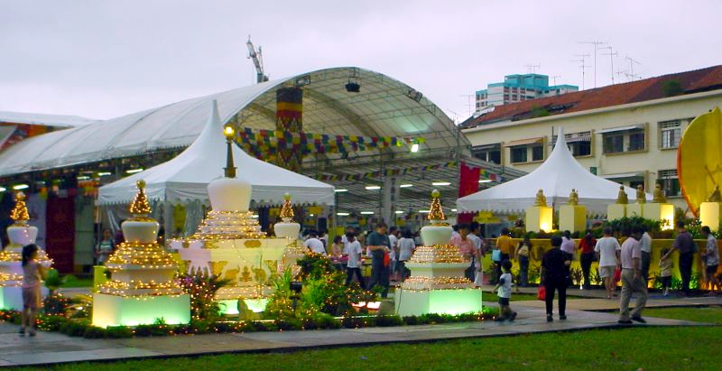 In front of Aljunied MRT station. Vesak day celebration by Tibetan Buddhists. Photo by Timo Sippala 2002